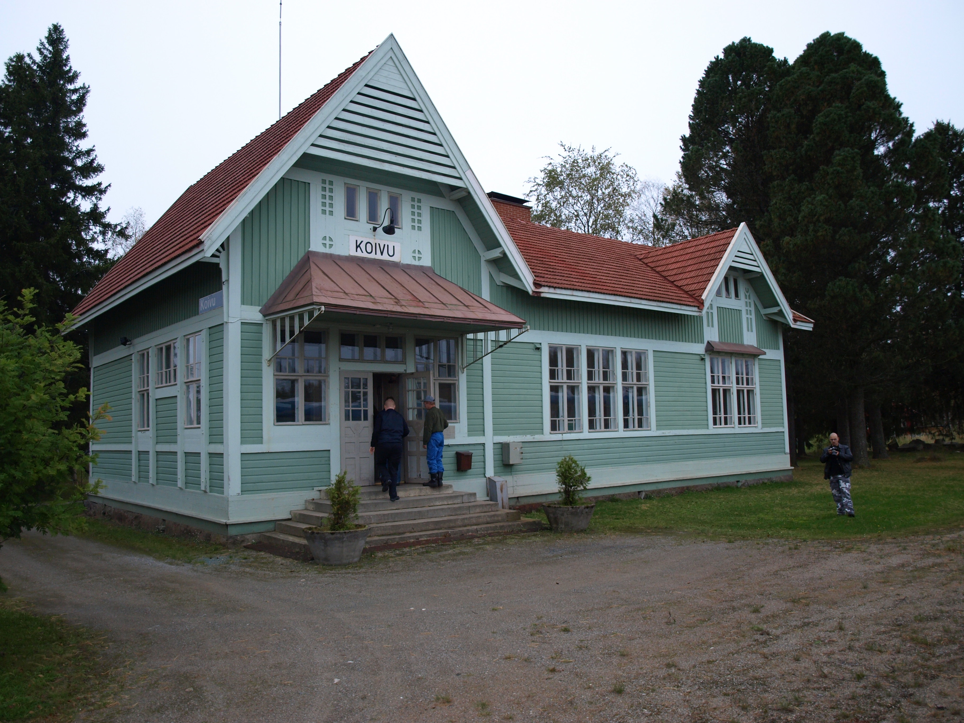 Koivu railway station in Tervola, Finland